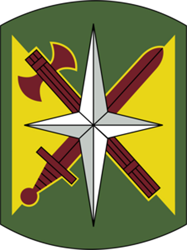 14th Military Police Brigade shoulder sleeve insignia. Representation of United States Army insignia, ineligible for copyright